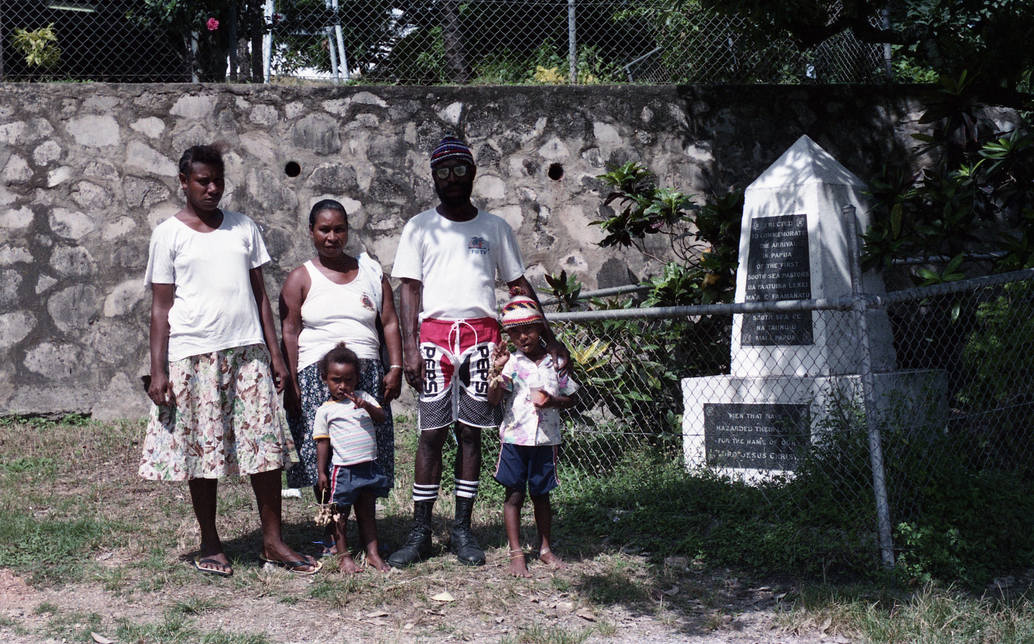 To commemorate the first South Sea pastors to Papua. (Inscription is in Moto.) "In I879 James Chalmers was killed on Goaribari Island on 7 April 1901. [Easter Sunday] Laws wrote of Chalmers:- 'He realised to a greater extent that most men what it is to live in Christ and to him His presence was very real and true and constant'. ---'Tamate - a king' by Diane Langmore, Melbourne University Press, 1974.